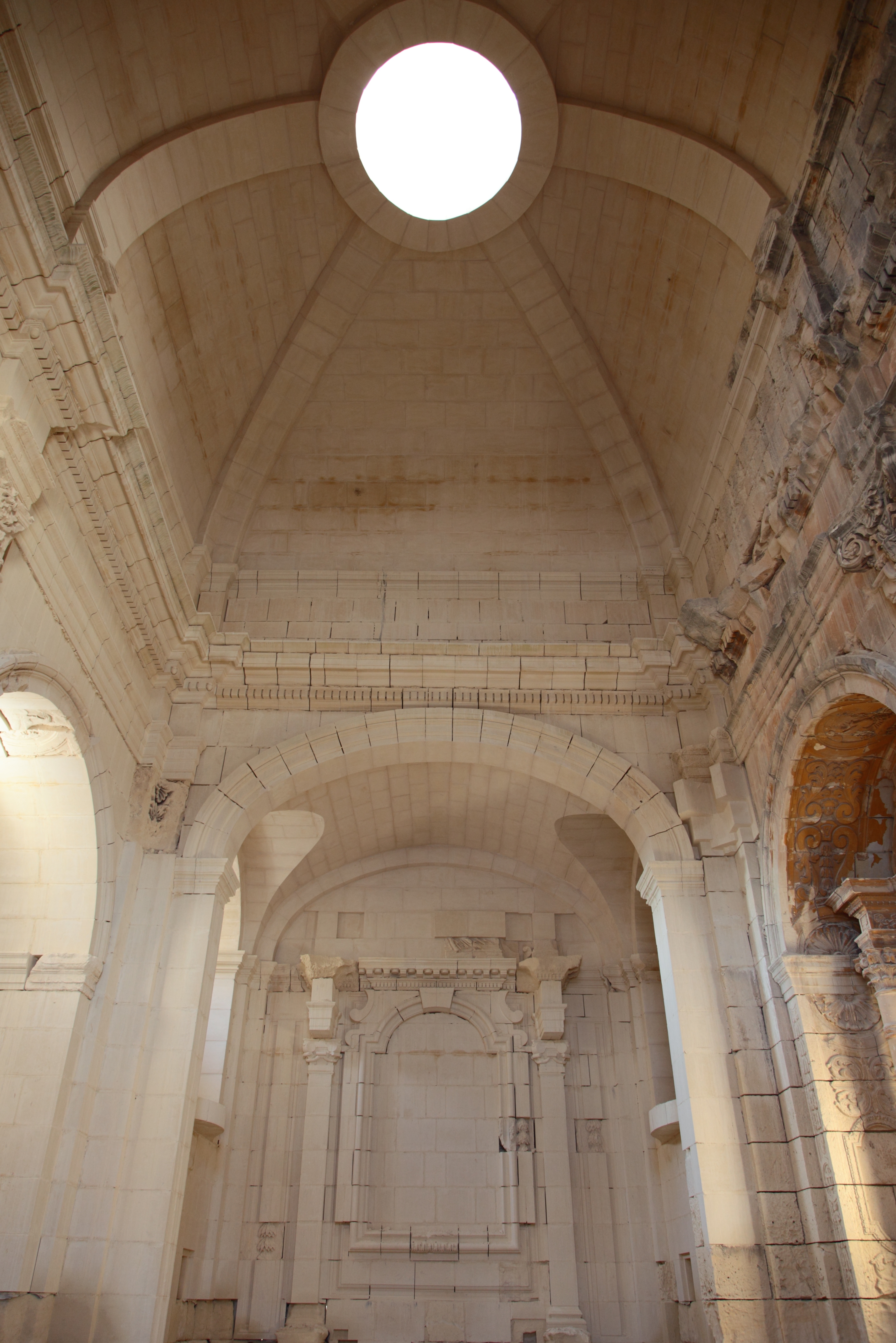 Malta, Manoel Island, Fort Manoel, church inside